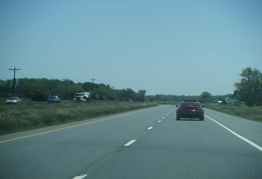 Southbound Delaware Route 1 between Milford and Milton, Delaware.